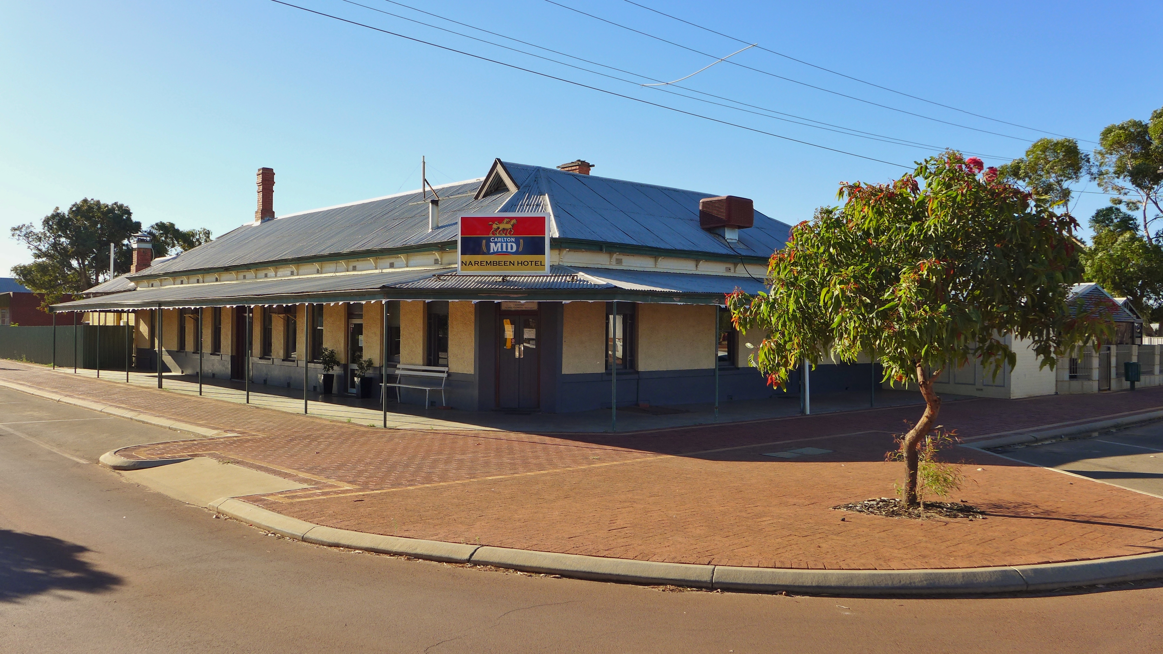 View of the Hotel in Narembeen, Western Australia.